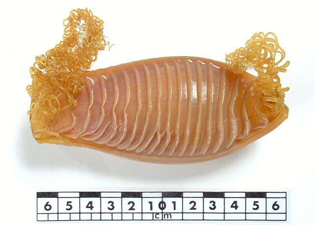 An eggcase of a Draughtboard Shark, Cephaloscyllium laticeps